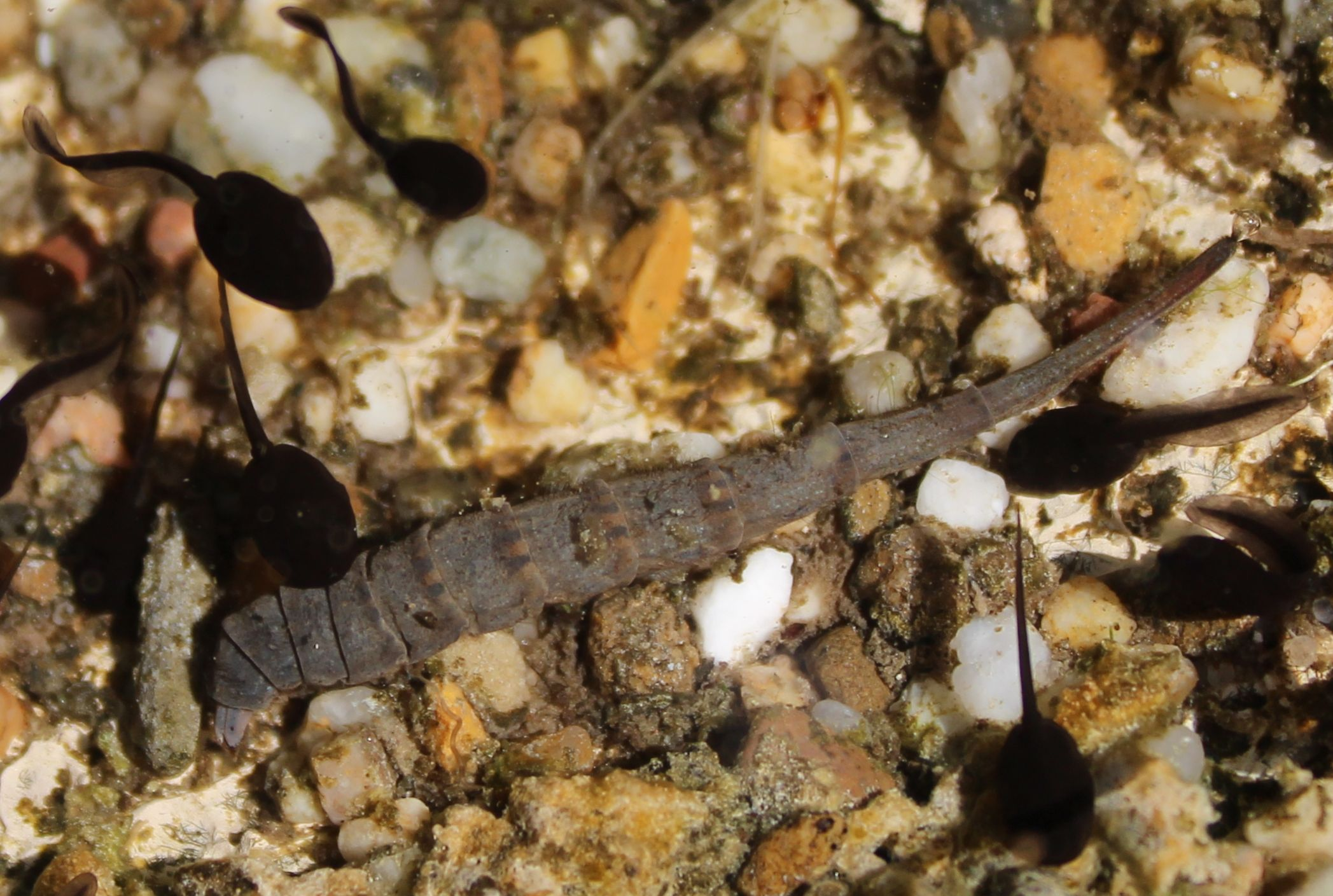 Stratiomys larvae from a garden pond in Munich, Germany. Probably S. longicornis.